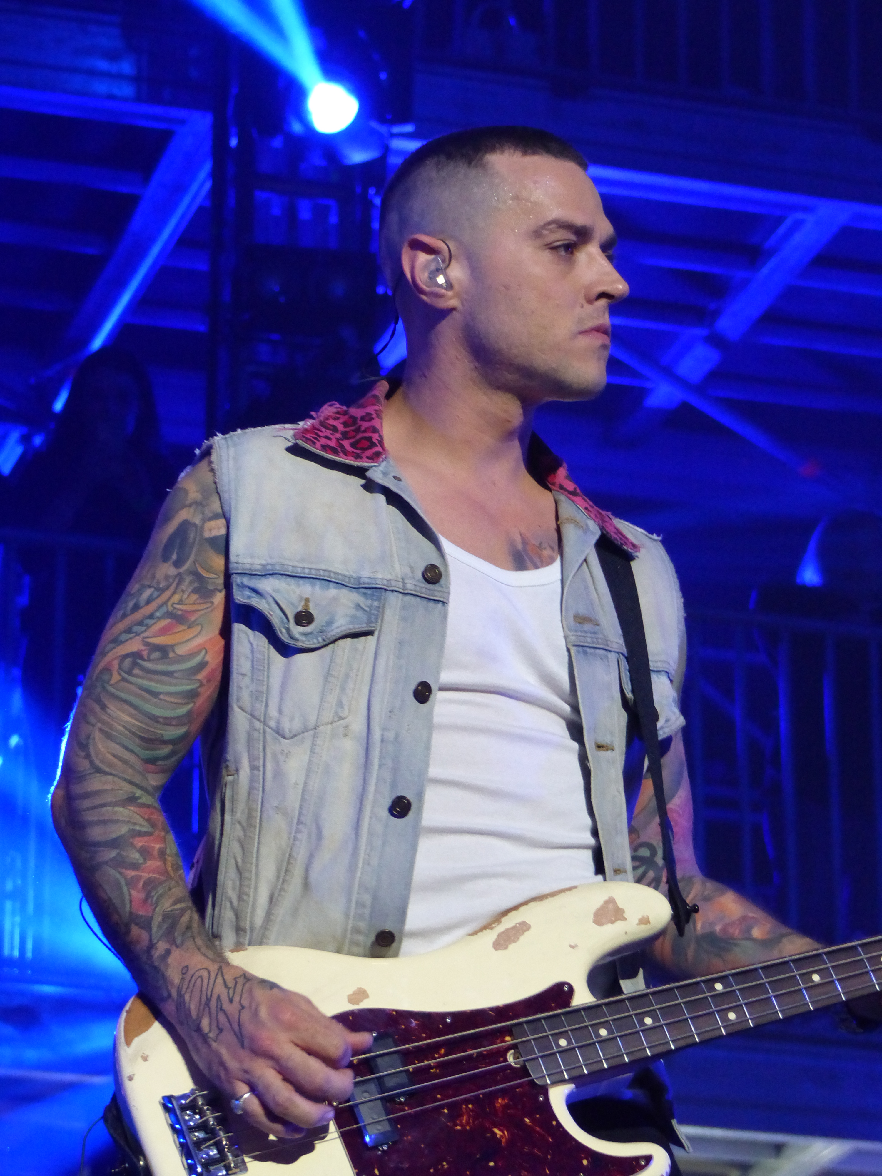 Matt Willis performing at the Manchester Arena, 2016